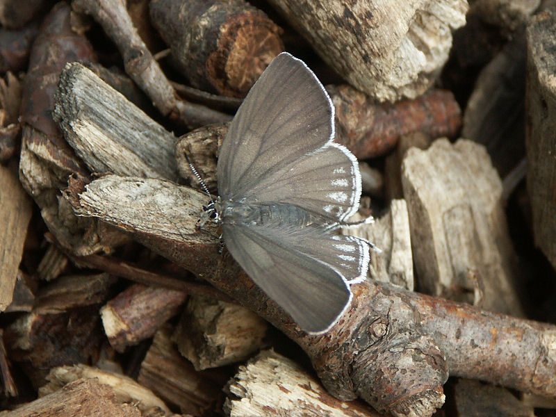 ssp. attilia